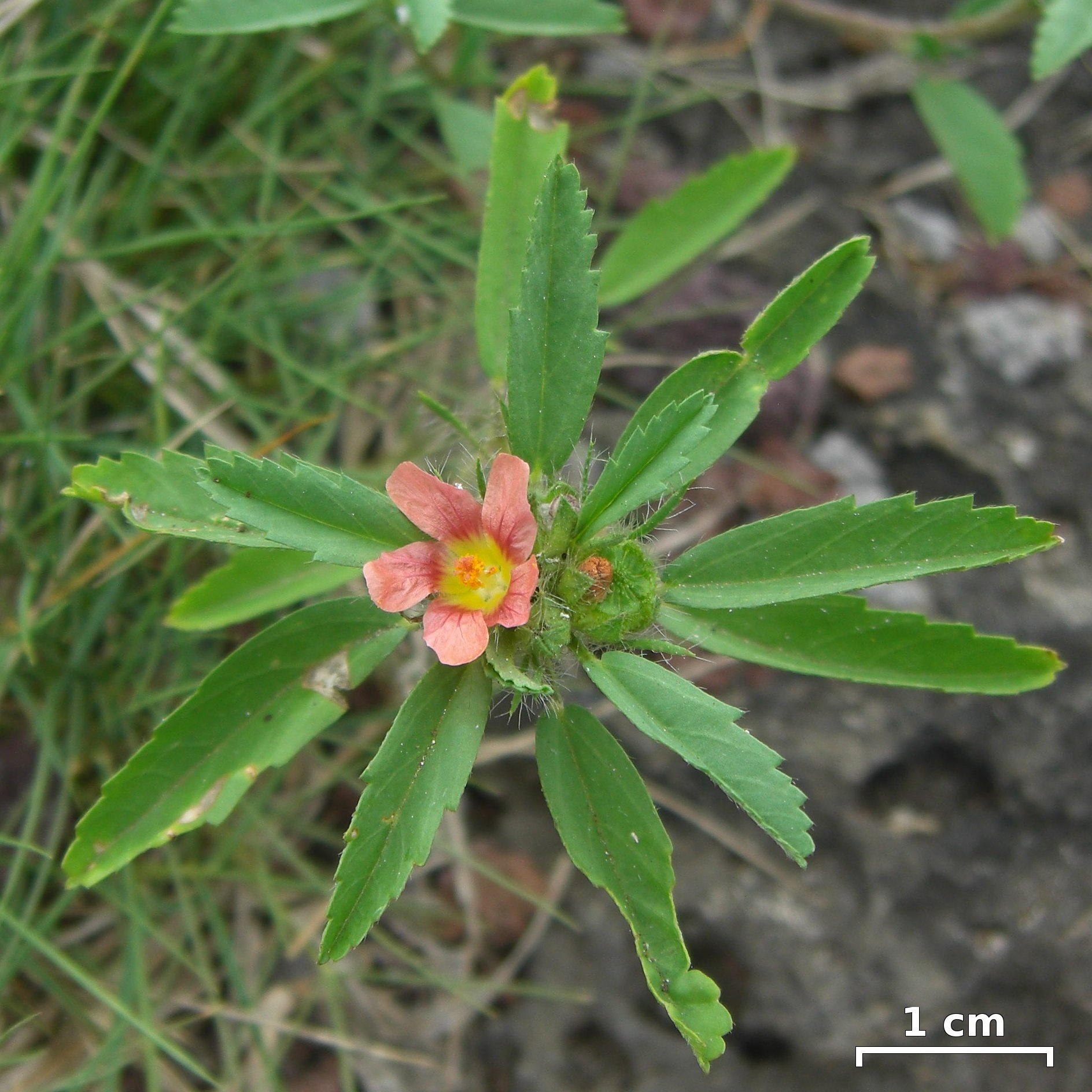 Sida ciliaris (exotic species) Charles Darwin Station, Santa Cruz Island, Galápagos, 20130129-47